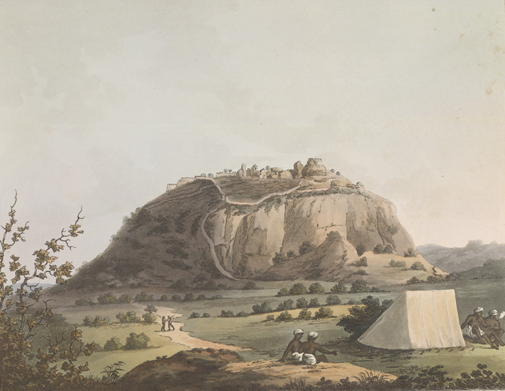 Artist: Hunter, James (d. 1792) Medium: Aquatint, coloured Date: 1804 Plate 28 from 'Picturesque Scenery in the Kingdom of Mysore' by James Hunter (d.1792). This aquatint, which is based on a picture by Hunter, shows the hill fort at Krishnagiri, Tamil Nadu. Hill forts such as Krishnagiri played a strategic role in the battles of the Third Mysore War (1792). During the latter half of the 18th century, large areas of southern India were controlled by Haider Ali Khan (c.1722 - 1782) and his son, Tipu Sultan (1753 -1799), the kings of Mysore. Their armies were also stationed at the hill-forts (droogs) such as this one. The 4 Anglo-Mysore wars produced a spate of publications and paintings portraying and describing events of the various campaigns.